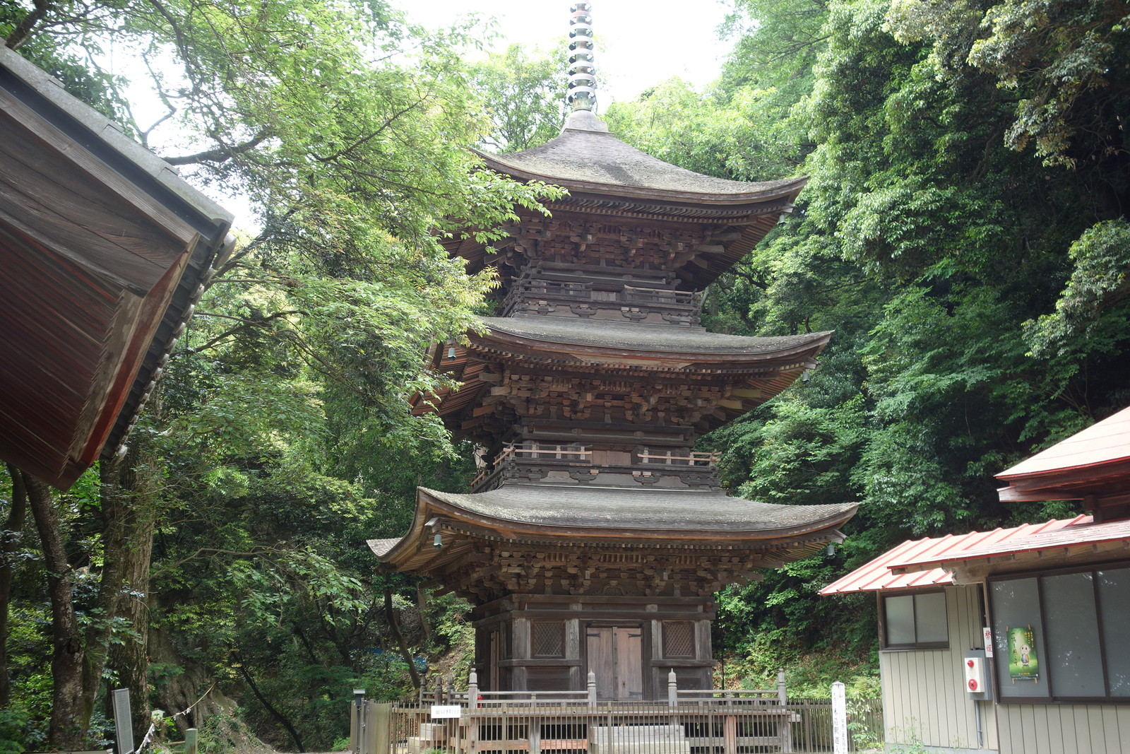 富谷観音三重の塔 National monument